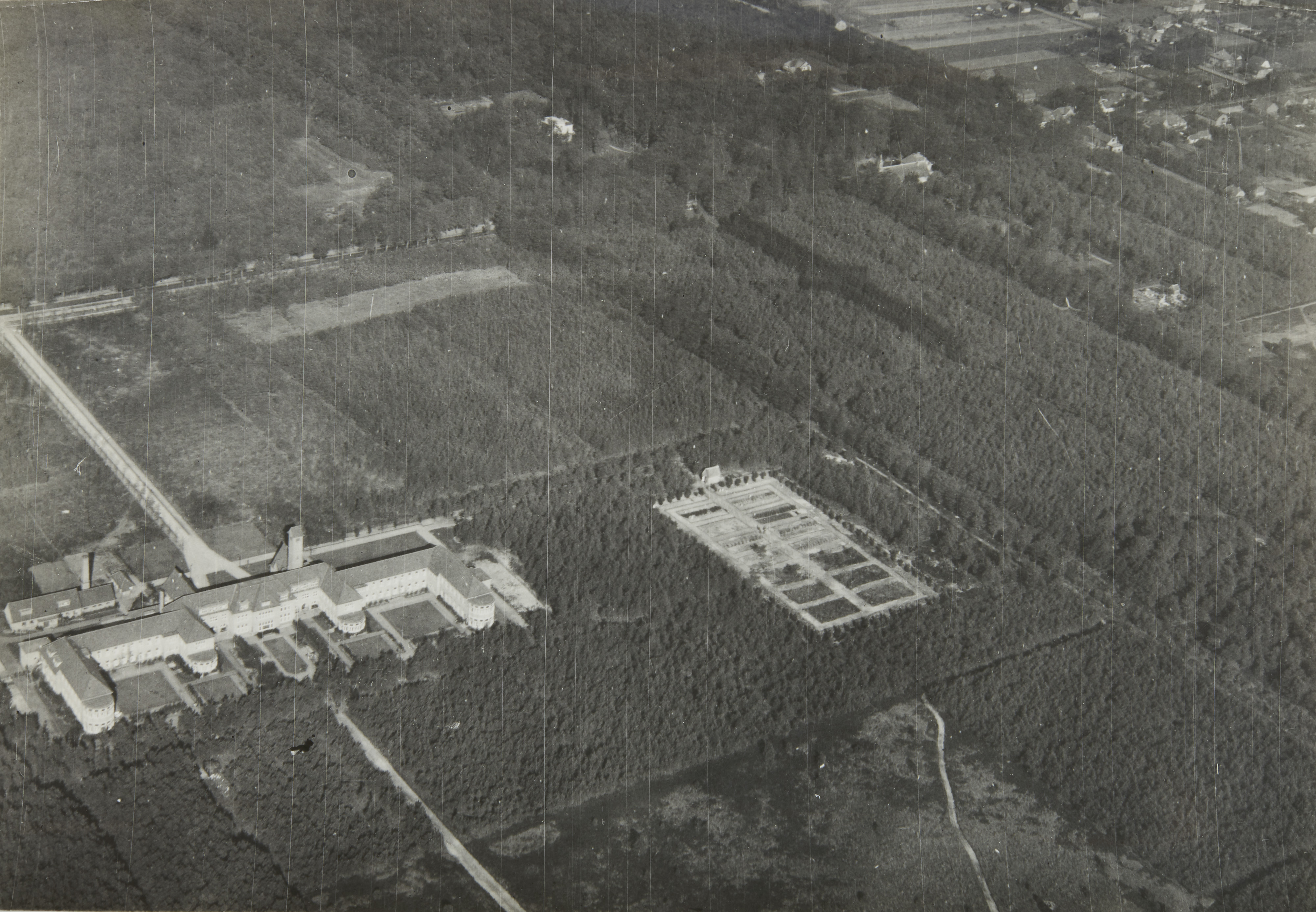 Aerial photograph of Huis ter Heide in The Netherlands.